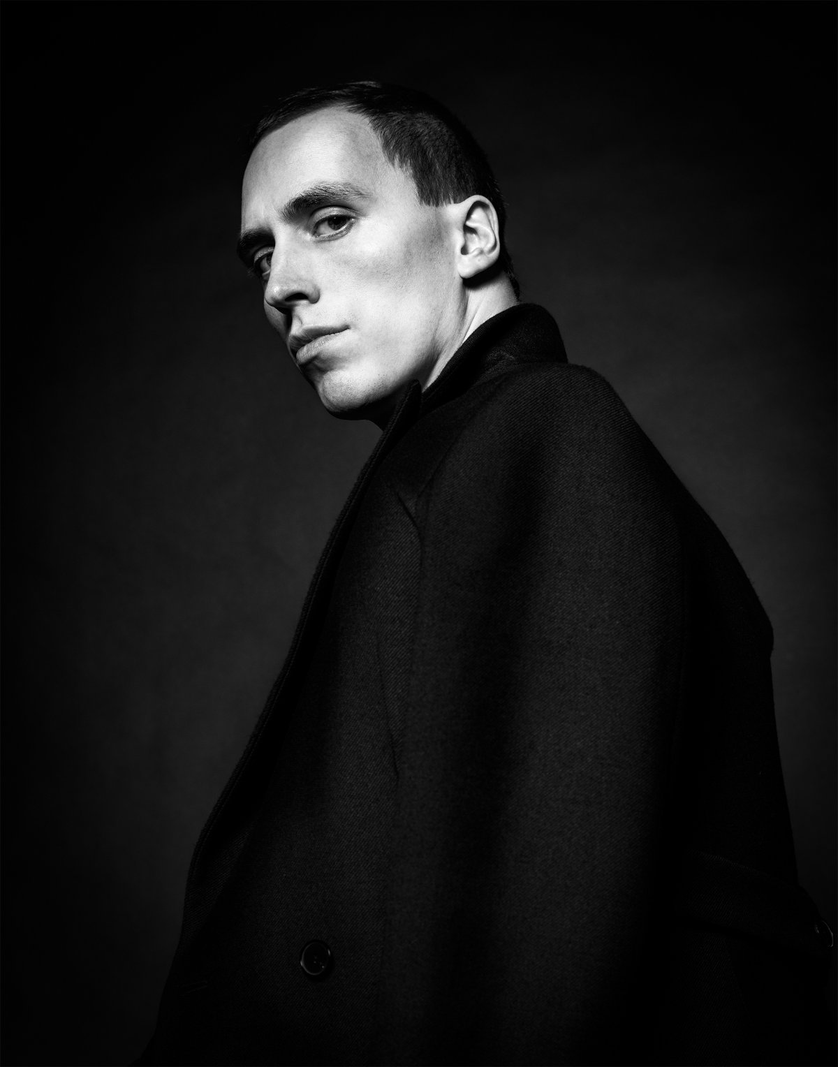 German composer and pianist Martin Kohlstedt, photographed 2019 by J. Konrad Schmidt